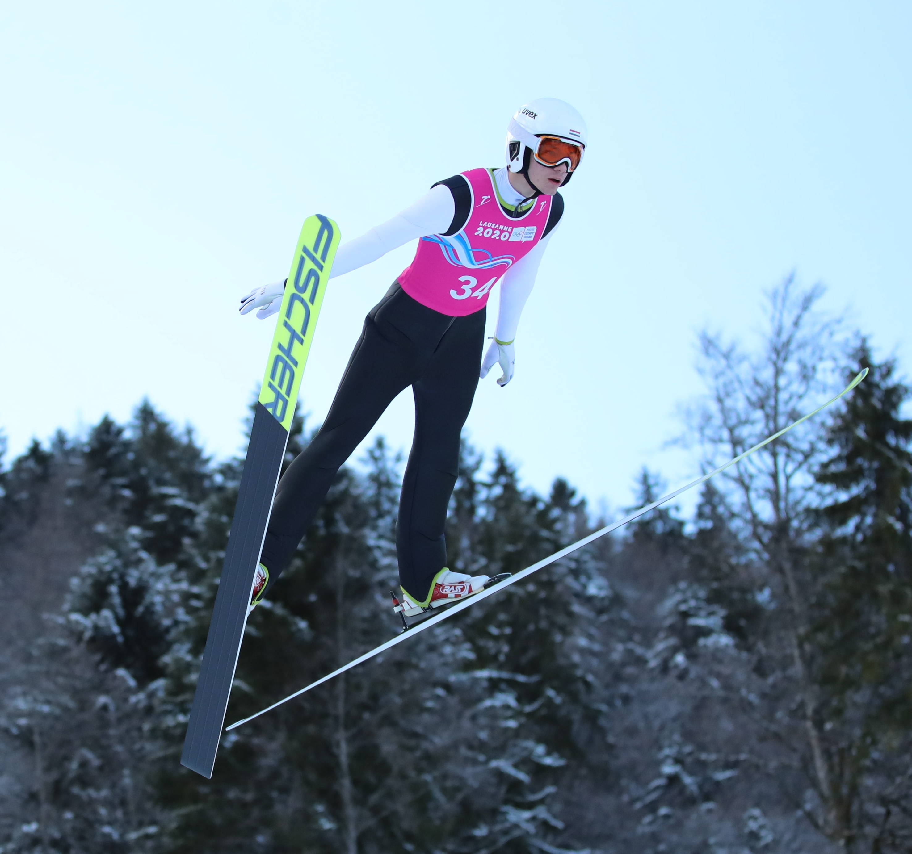 1st Round of Ski jumping – Men's Individual at the 2020 Winter Youth Olympics in Lausanne on 19 January 2020.